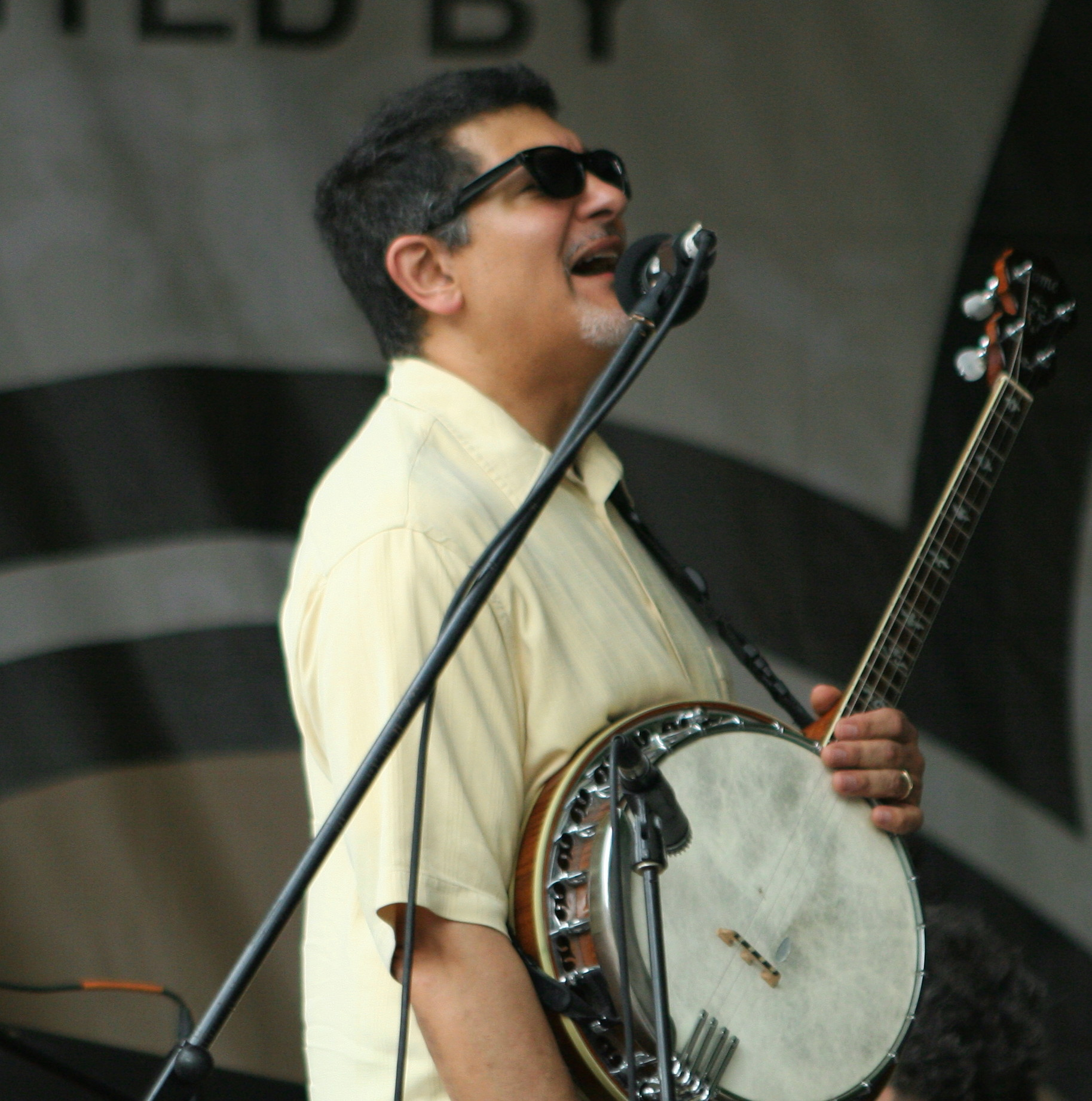 Don Vappie with his banjo. Wednesday's At The Square Lafayette Square NOLA April 27, 2011